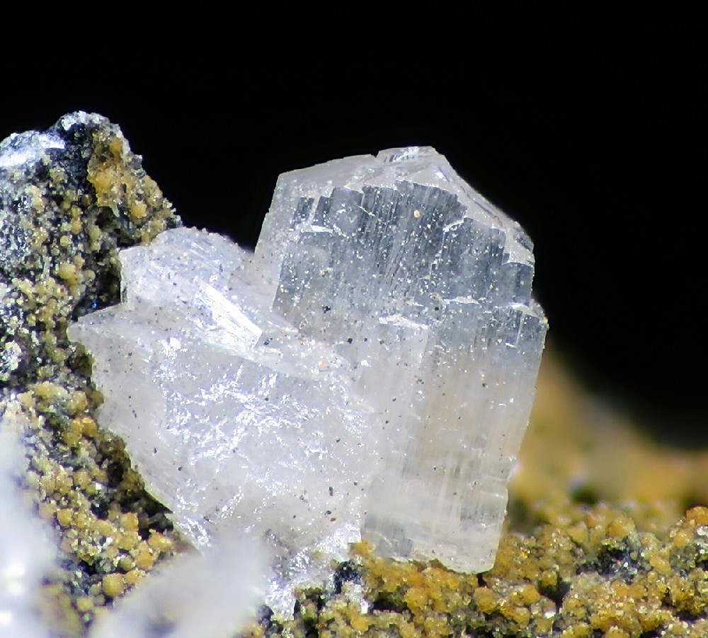 Georgiadesite Locality: Vrissaki Point slag locality, Vrissaki area, Lavrion District slag localities, Lavrion (Laurion; Laurium) District, Attikí (Attica; Attika) Prefecture, Greece Picture width 3 mm. Collection and photograph Christian Rewitzer